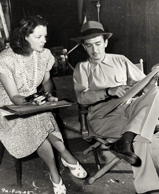 Renié (costume designer) & John H. Auer (director) on the set of Pan-Americana - publicity still